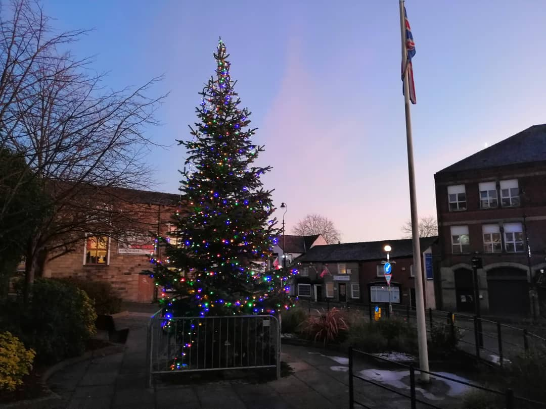 Christmas tree in lees square with a purple sky